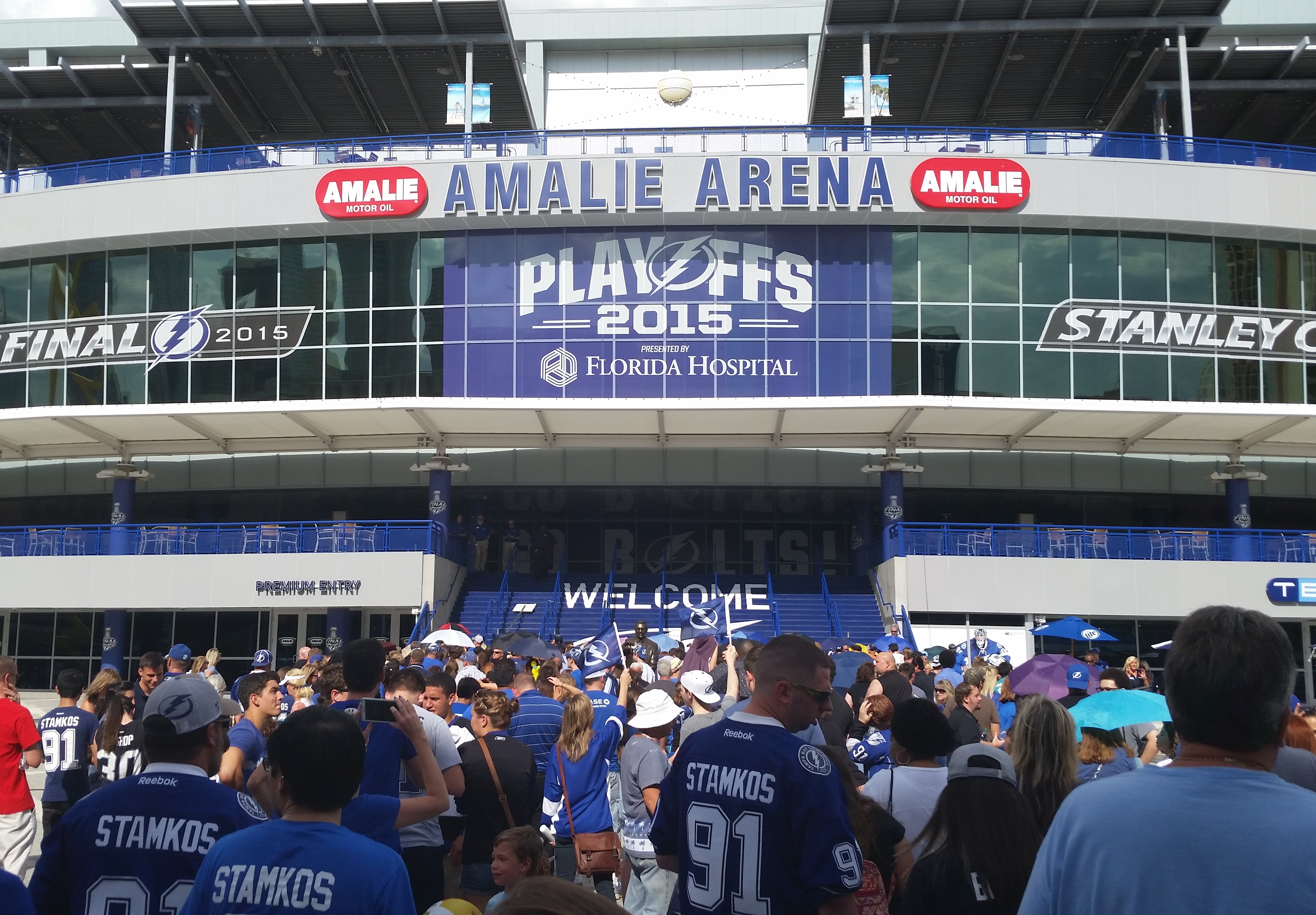 NHL Stanley Cup Finals: Game 6 Tampa Bay Lightning vs. Chicago Blackhawks Watch Party Amalie Arena 401 Channelside Dr, Tampa, FL 33602, US